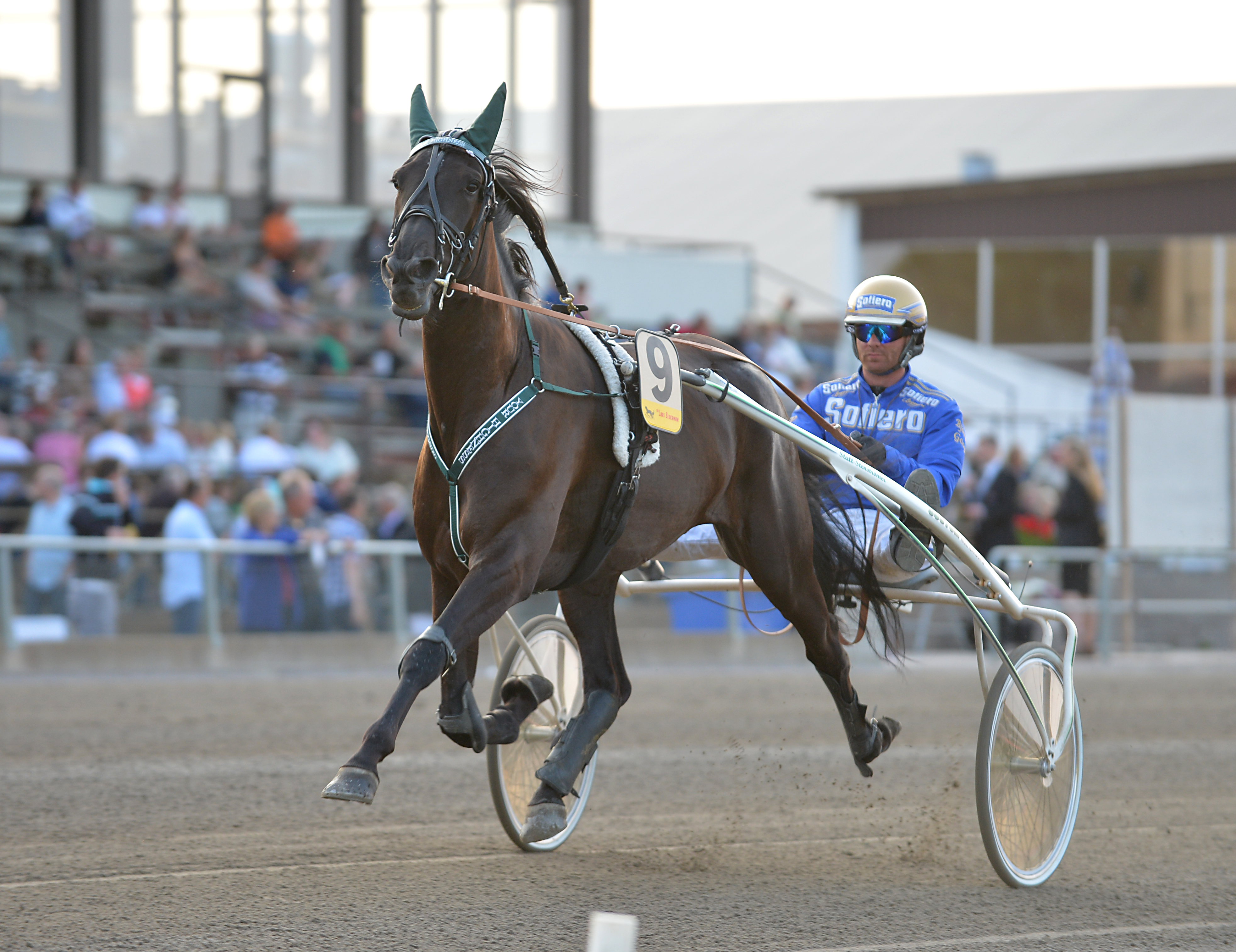 Your Highness and driver Björn Goop. 2013-07-12.